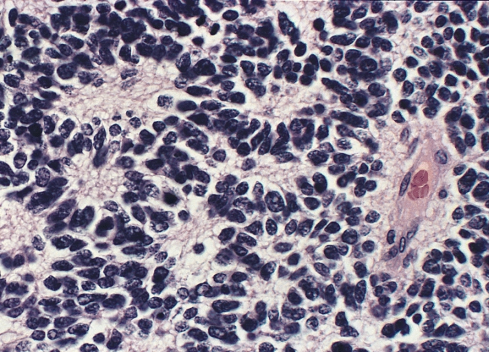 ADRENAL GLAND: HOMER WRIGHT ROSETTES IN A NEUROBLASTOMA These Homer Wright rosettes appear as pale zones with fibrillar matrix corresponding to neuritic cell processes.